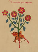 Drawing of the plant "Nonochton", from Libellus de Medicinalibus Indorum Herbis (1552).